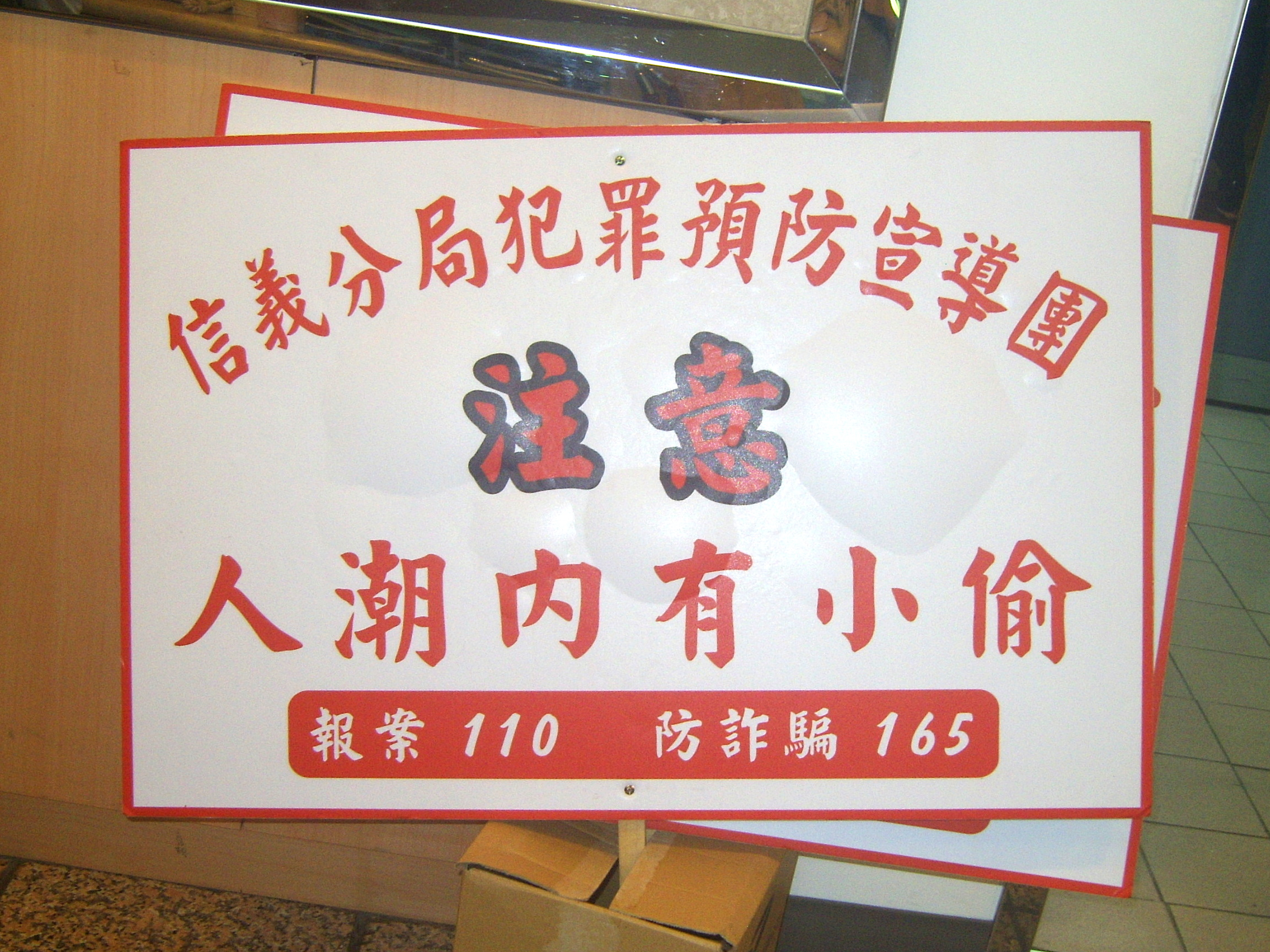 2008 Taipei IT Month: Anti-theft notice board of Xinyi Precinct, Taipei City Police Department.